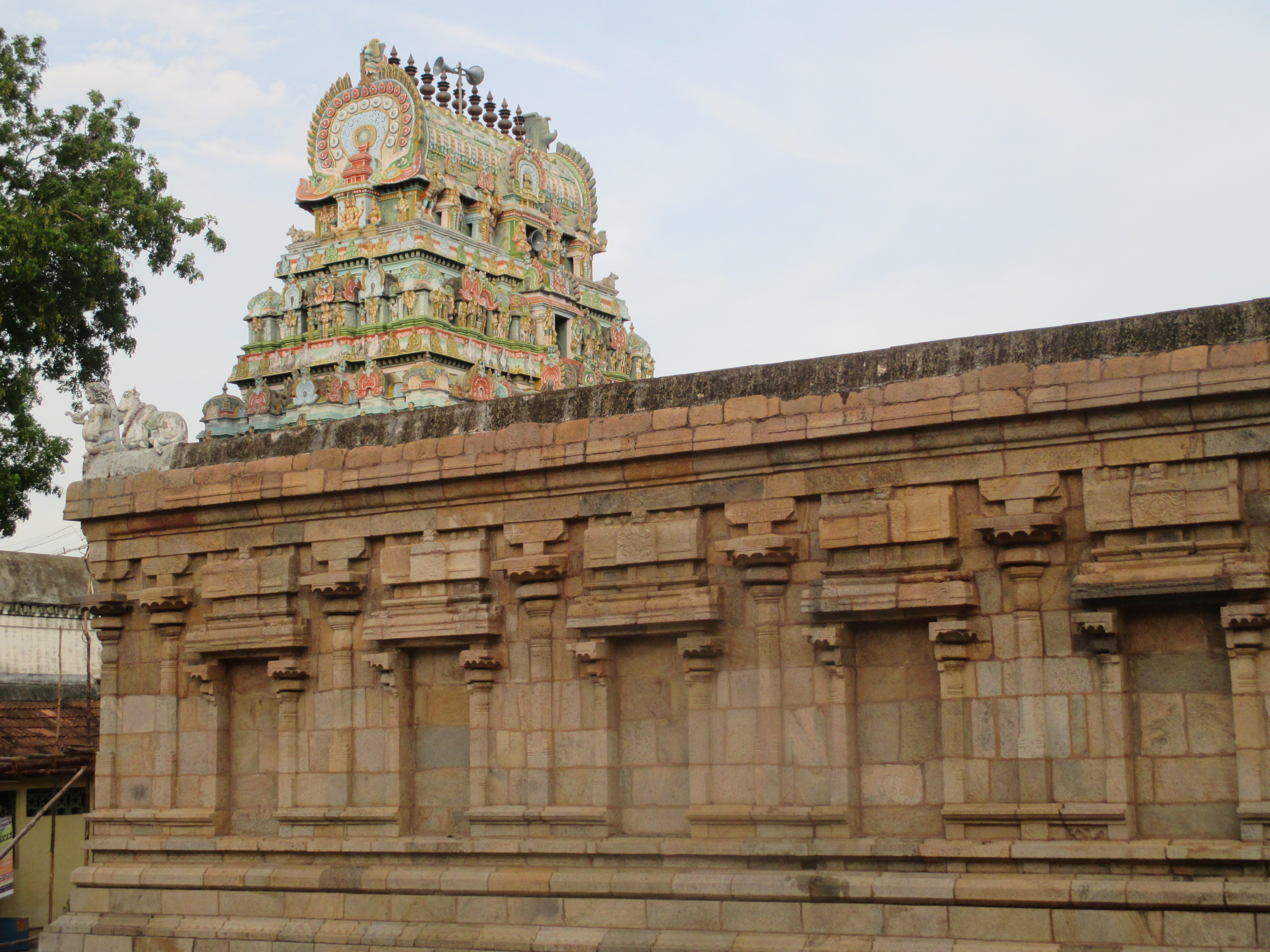 Tirunageswaram